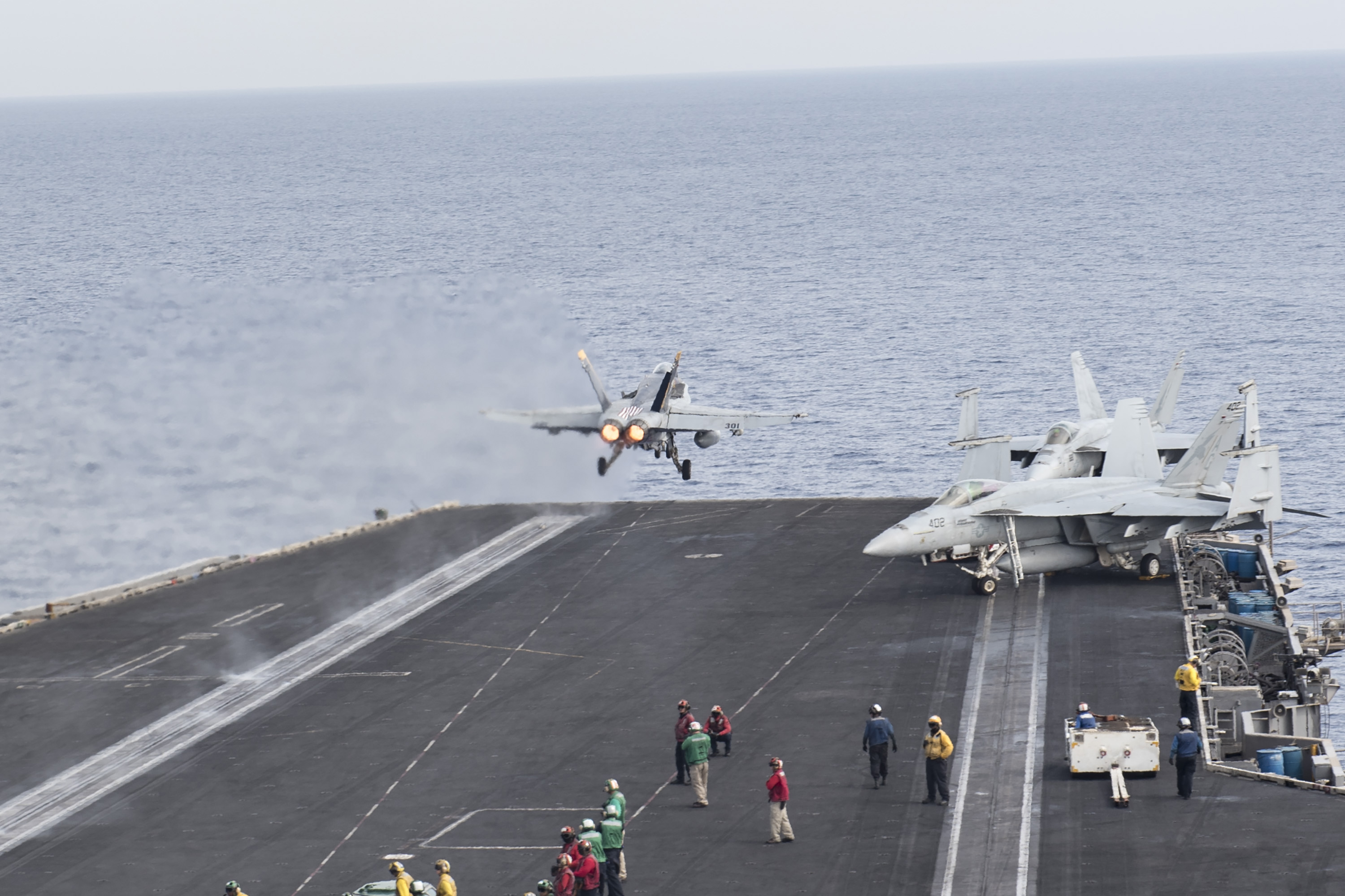 MEDITERRANEAN SEA (June 3, 2016) An F/A-18C Hornet, assigned to the “Rampagers” of Strike Fighter Squadron (VFA) 83, launches from the flight deck of aircraft carrier USS Harry S. Truman (CVN 75). Harry S. Truman Carrier Strike Group is deployed in support of Operation Inherent Resolve, maritime security operations and theater security cooperation efforts in the U.S. 6th Fleet area of operations. (U.S. Navy photo by Mass Communication Specialist 3rd Class Bobby J Siens/Released)160603-N-DZ642-112 Join the conversation: navylive.dodlive.mil